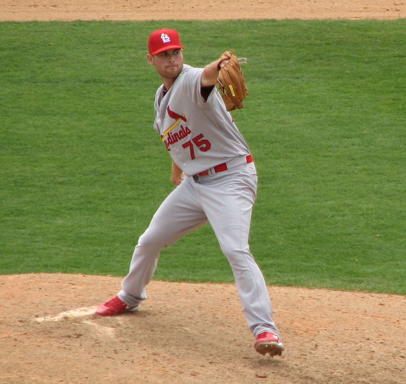 Picture of Adam Ottavino